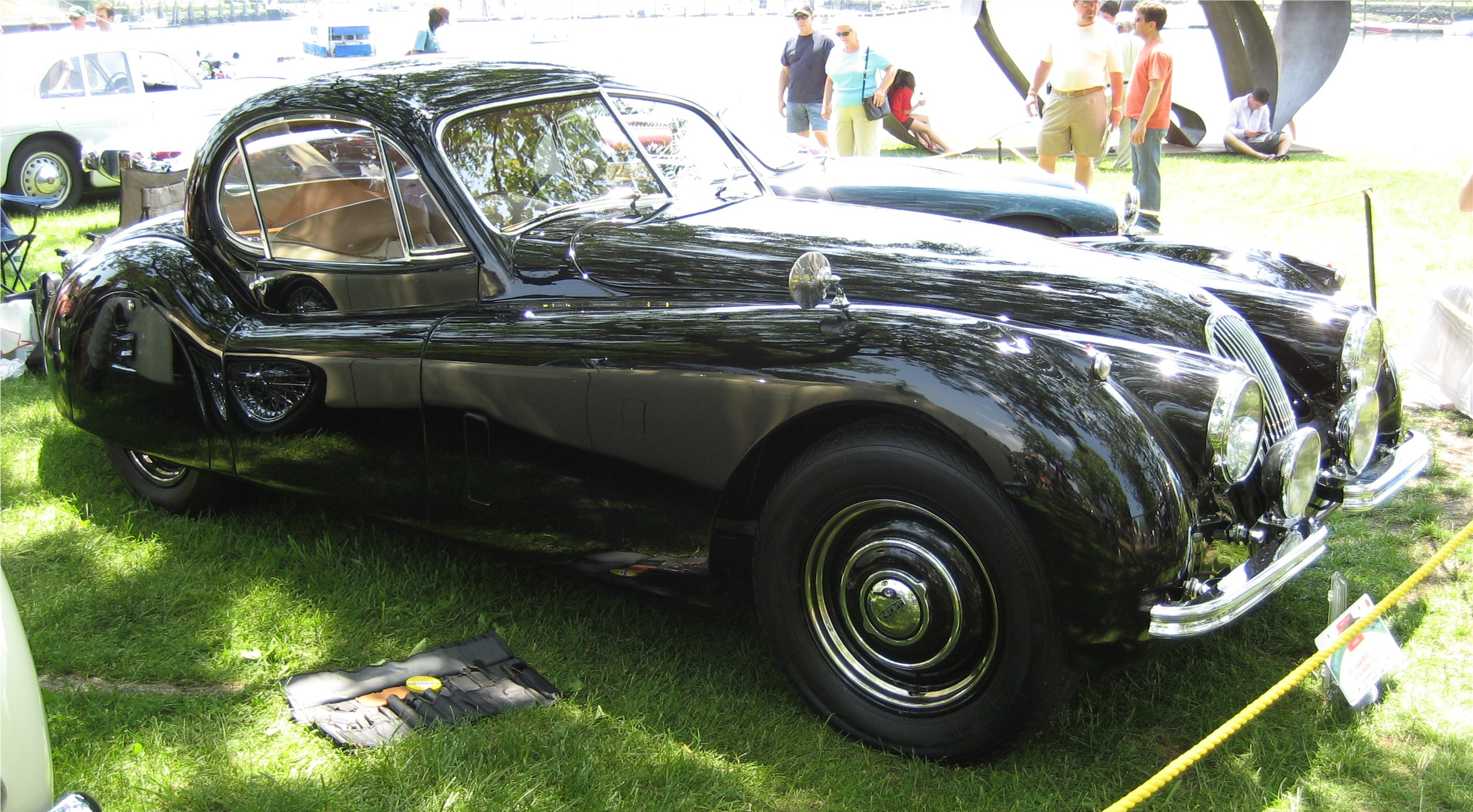 1953 Jaguar XK120 coupe photographed at the 2008 Greenwich Concours d'Elegance in Greenwich, Connecticut.